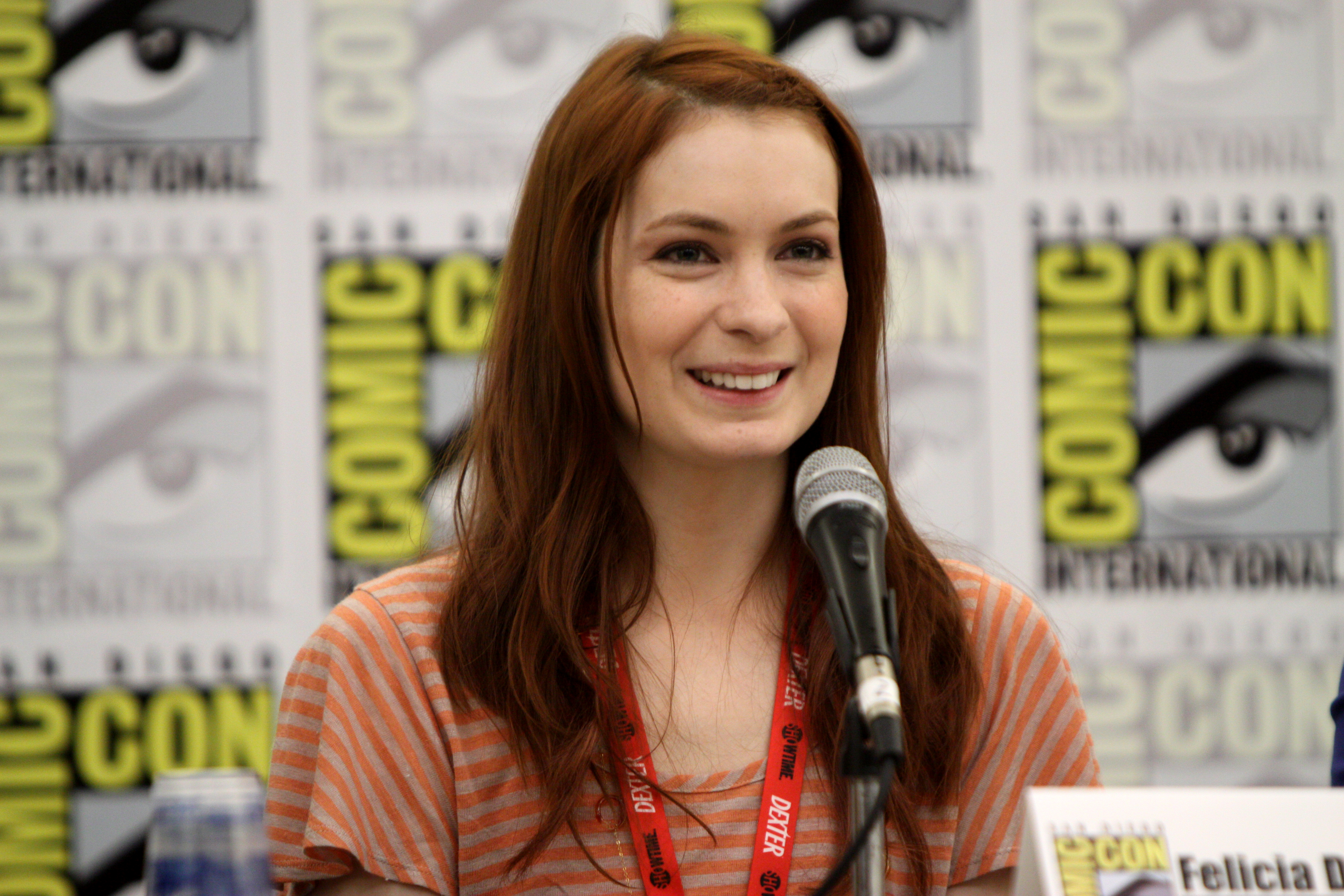 Felicia Day at the 2011 San Diego Comic-Con International in San Diego, California.